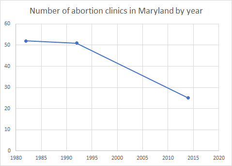 Number of abortion clinics in Maryland by year. Data is from articles linked at